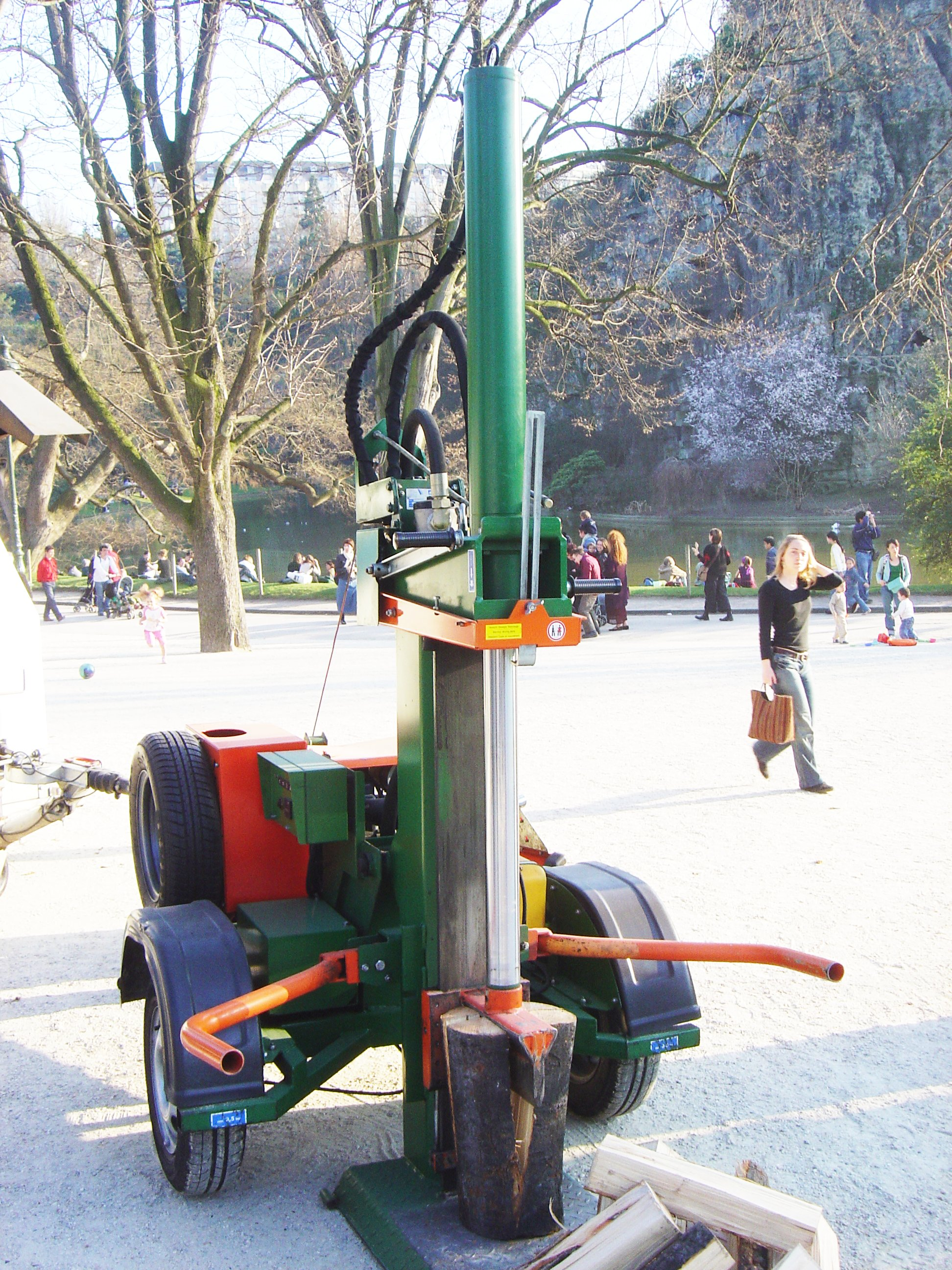 A vertical splitting machine (city of Paris gardening services). Taken in the Buttes Chaumont park. (Boosted colors)